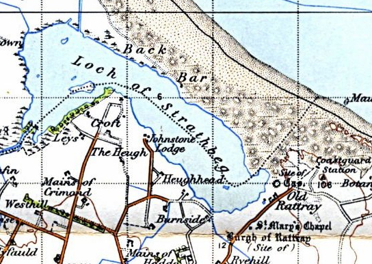 Image derived from this on .uk. Original map is a 1931 [Ordnance Survey] map.